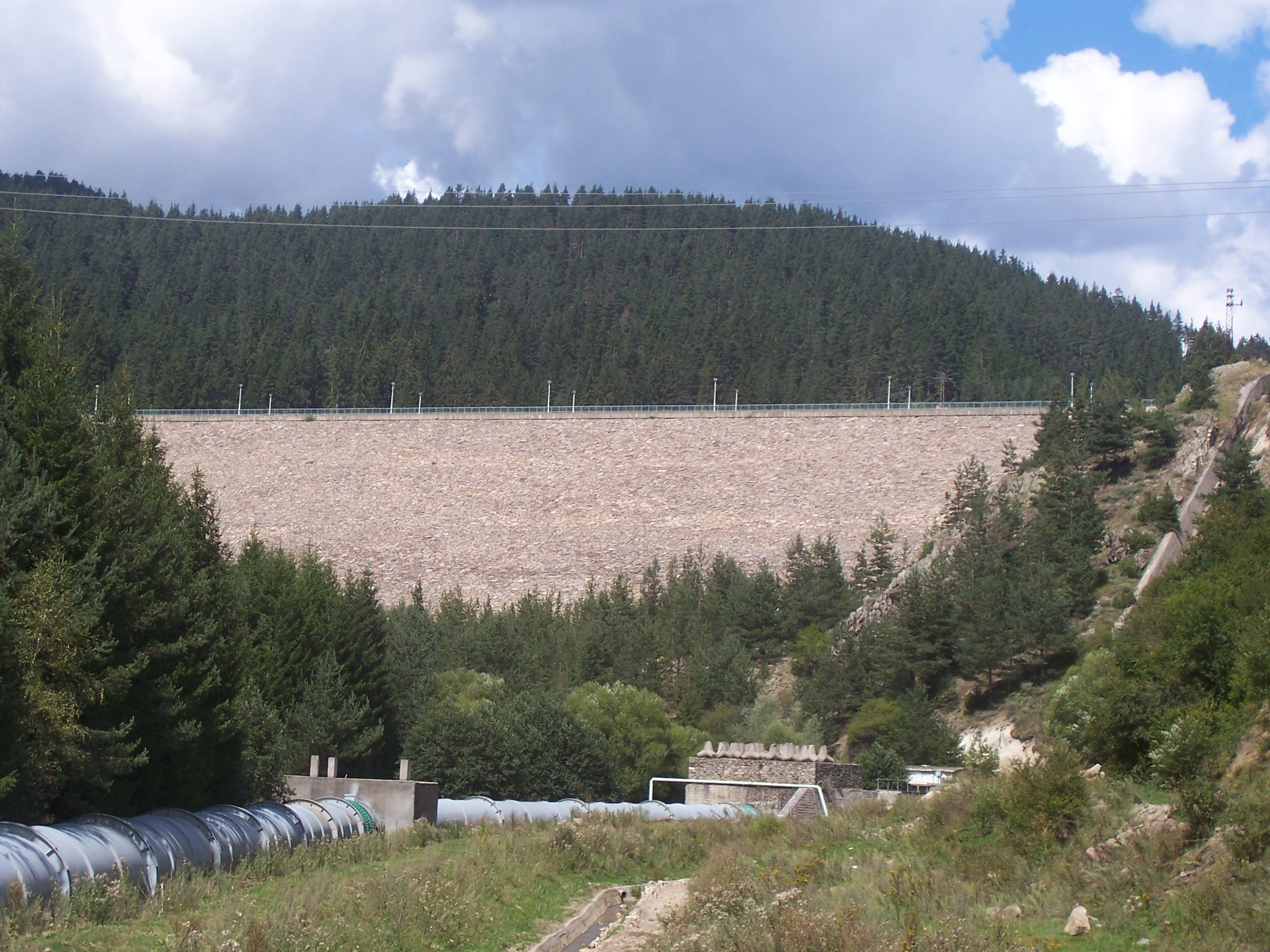 In front of Dospat Dam.